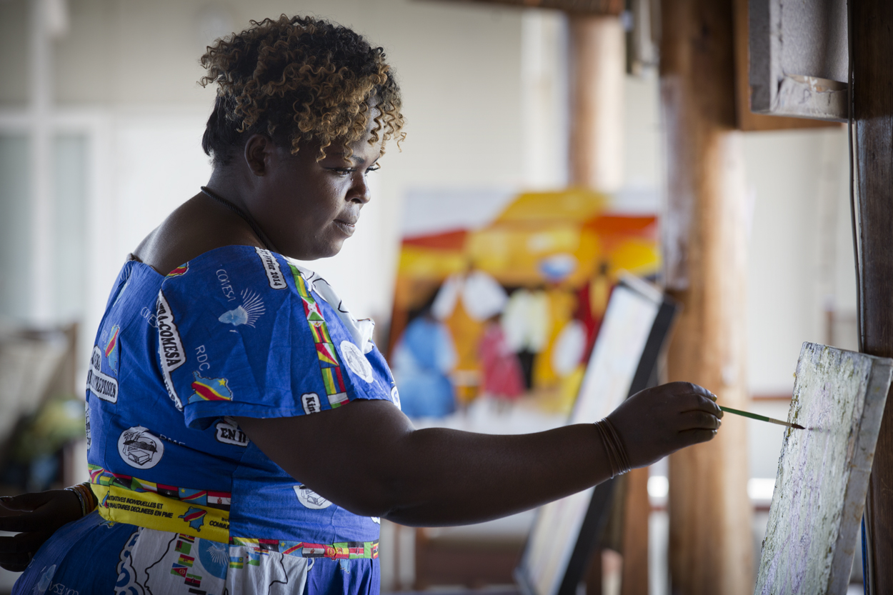 International Women's day Art exhibition in Goma, the 8th of March 2014. © MONUSCO/Sylvain Liechti